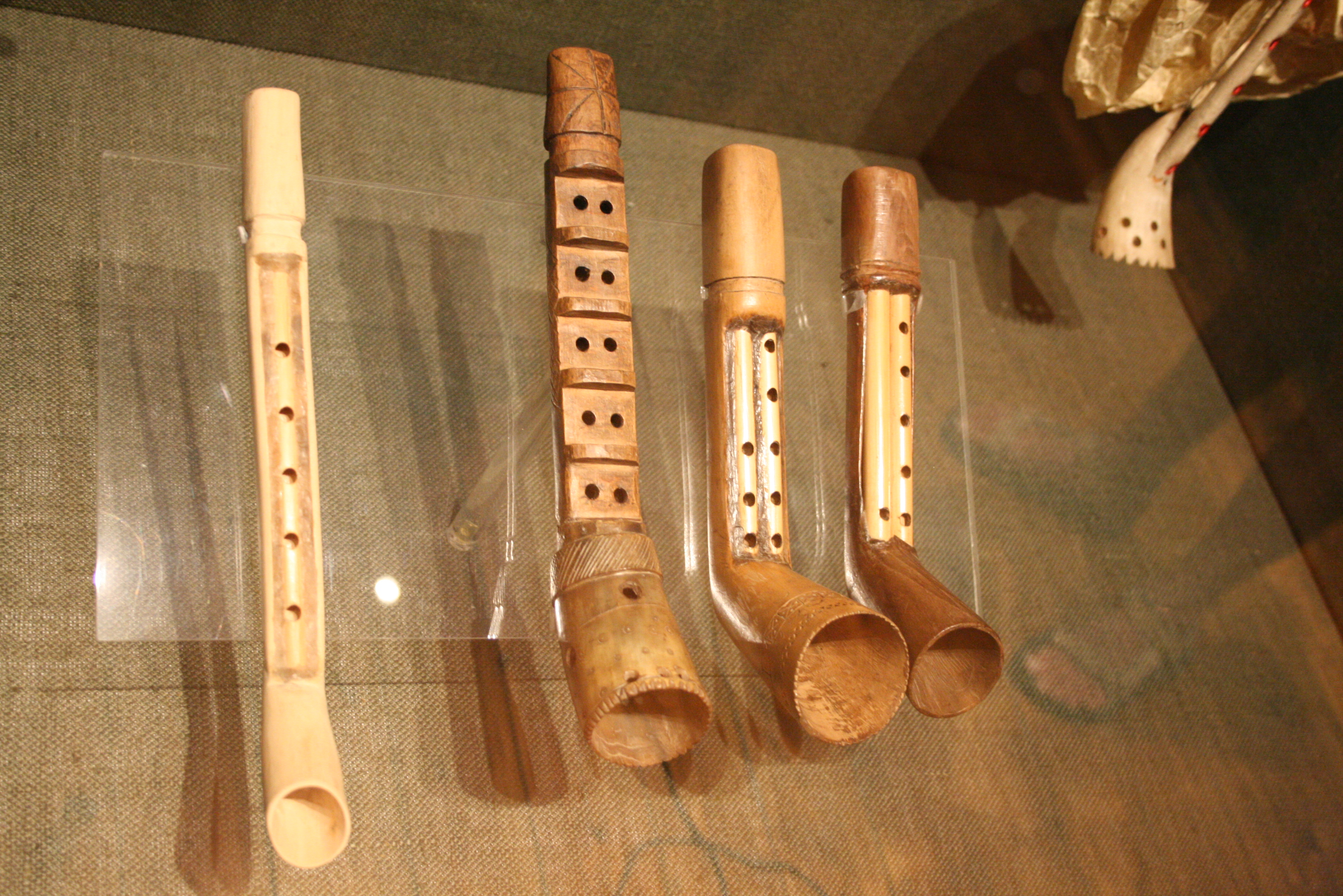 Tsambouna/Askomandoura (greek islands bagpipes) pipes in the Museum of Greek Folk Instruments in Athens. From left to right: Ikaria, Cephalonia, Kalymnos, Karpathos